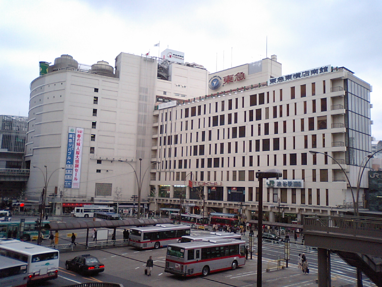 Tokyu Toyoko Department Store and Shibuya station.